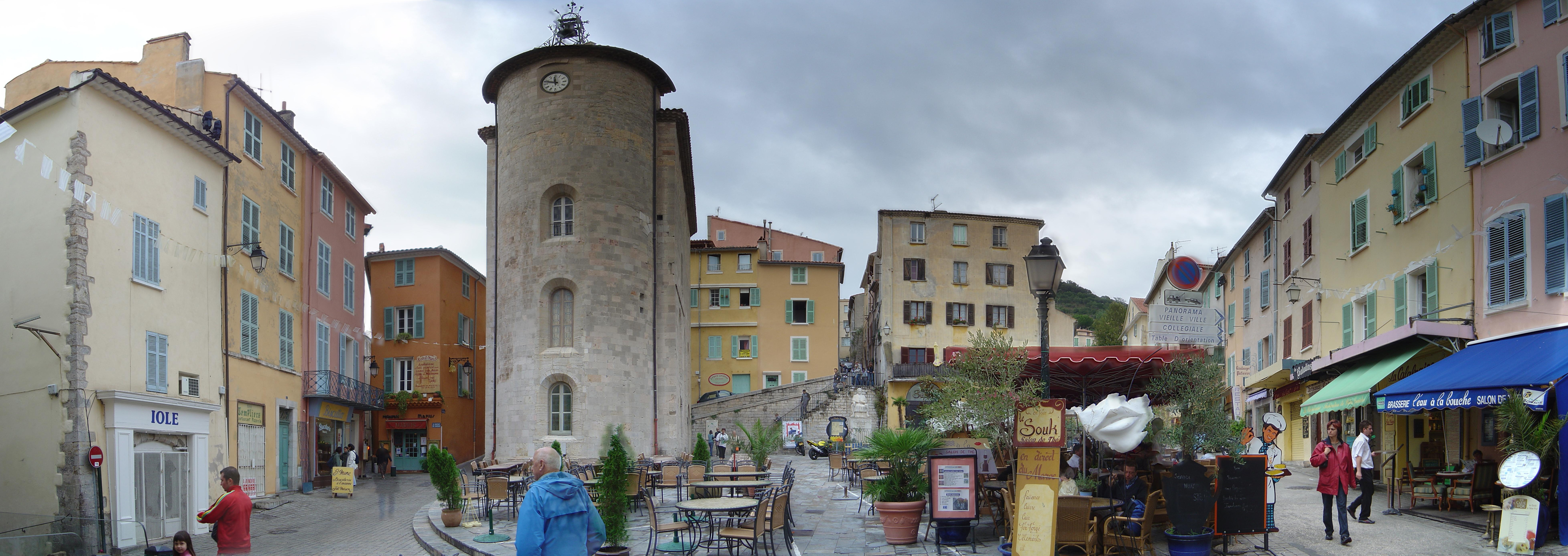 panoramic view of the central plaza of Hyeres